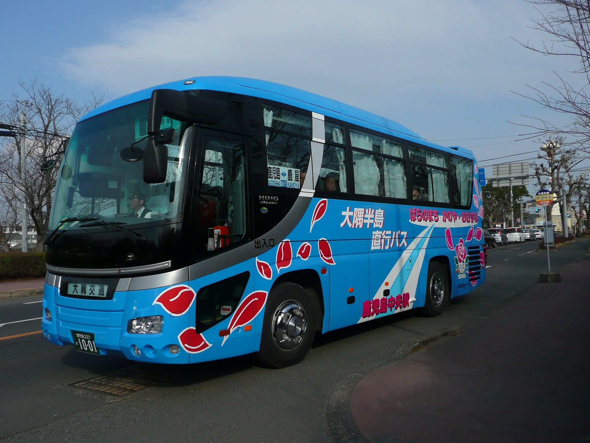 Kagoshima Chuo Station (Kagoshima City) Kanoya (Osumi Peninsula) Direct Bus